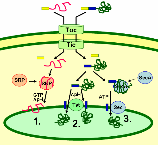 Schematic representation of thylakoid protein targeting pathways: Toc and Tic: translocon of outer and inner envelope membrane of chloroplasts, respectively 1. SRP (signal recognition particle) pathway; required GTP and pH gradient as energy source 2. ΔpH/Tat pathway; requires pH gradient as energy source 3. Sec (secretory system) pathway; required ATP as energy source not shown: spontaneous insertion of transmembrane proteins requiring no energy source Chloroplast targeting peptide shown in yellow is cleaved off by a processing protease after entering the chloroplast. Thylakoid targeting peptide shown in blue may be cleaved off (lumenal proteins) or not (membrane proteins).